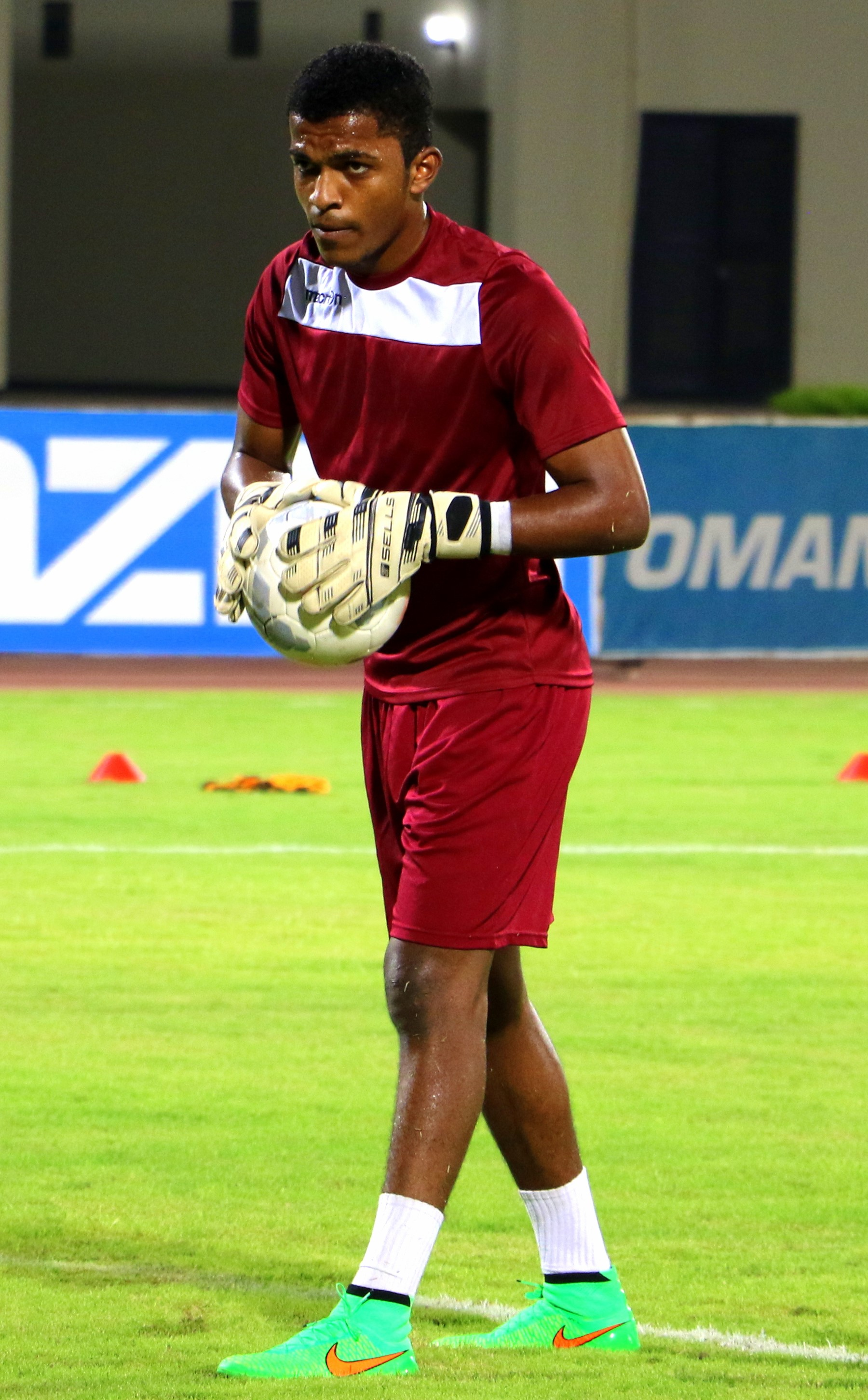 Ahmed Al Rawahi during a pre-match training session with Al-Nasr Club of Salalah. 27 October 2015 Salalah Sports Complex, Salalah, Oman Photographer email id